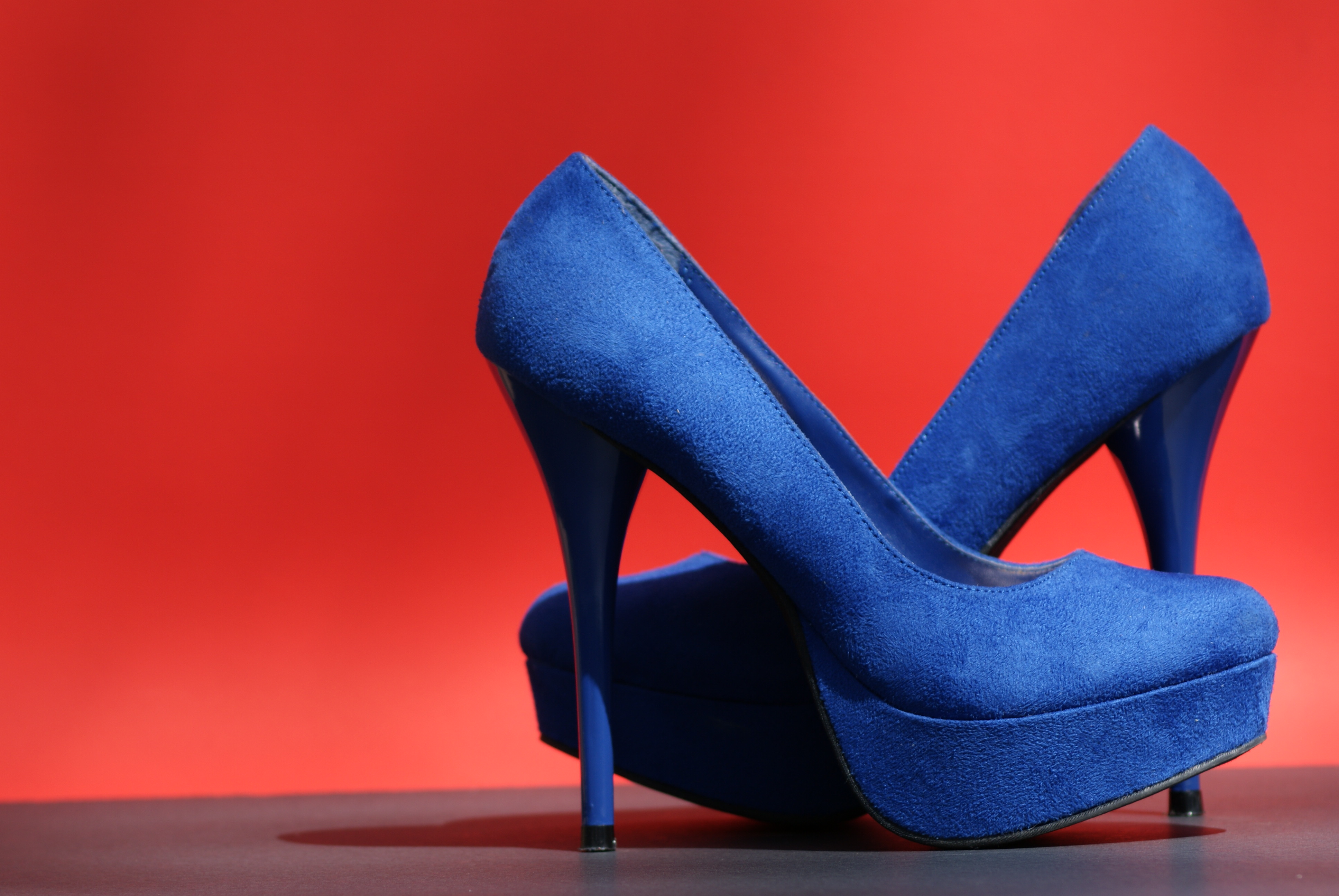 Playing around with different objects, colors etc.